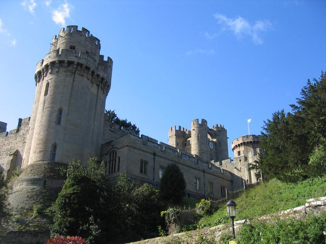 Caesar's Tower at Warwick Castle on the left with the gatehouse on the right.